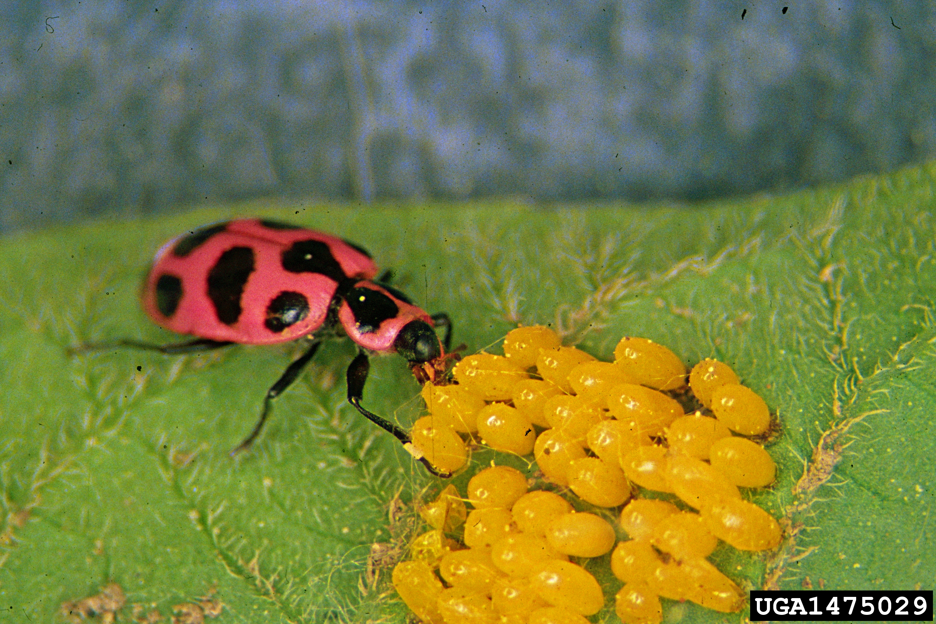 spotted lady beetle, Coleomegilla maculata (De Geer, 1775), feeding on eggs of Colorado potato beetle